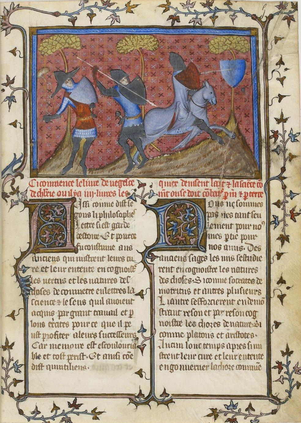 A page from a French translation from Flavius Vegetius' book